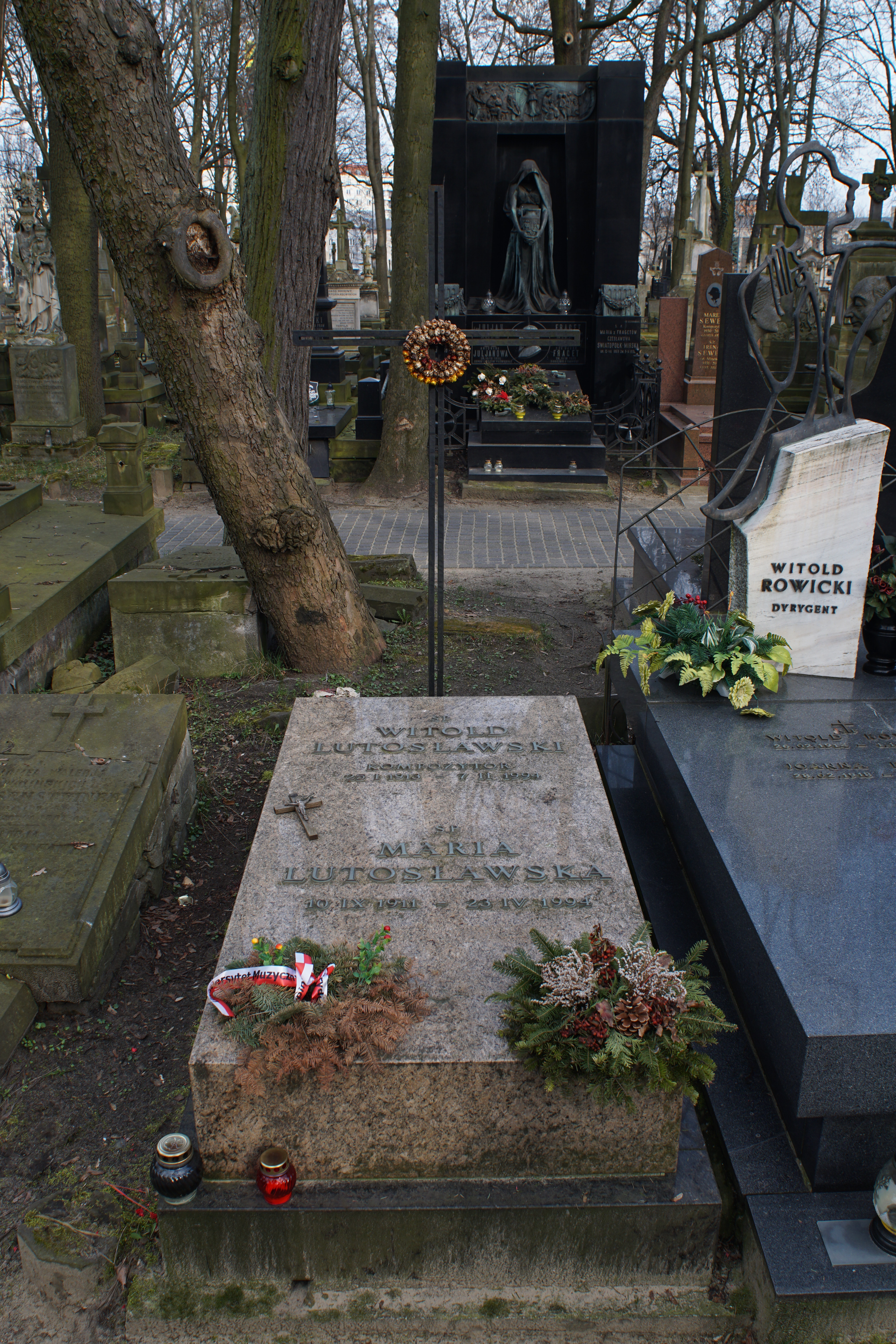 The grave of Witold Lutosławski at the Powązki Cemetery (section 2, row 2, grave 8)